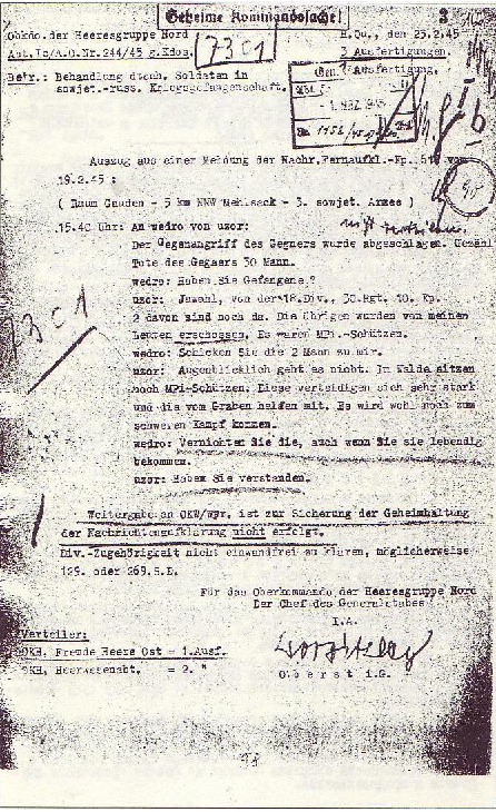 Document of the german Wehrmacht protocolling soviet radio messages